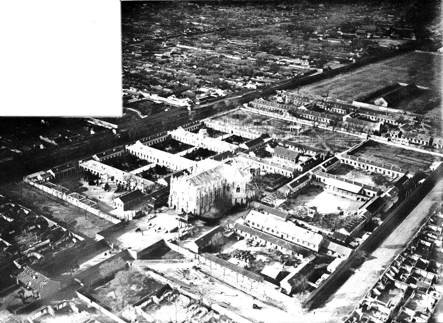 Image from La Chine à terre et en ballon.